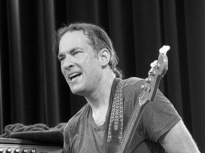 Andy Hess, base player performing with John Scofield in Aarhusn 2014